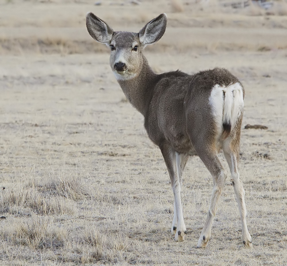 Black-tailed Deer / Mule Deer female (Odocoileus hemionus)